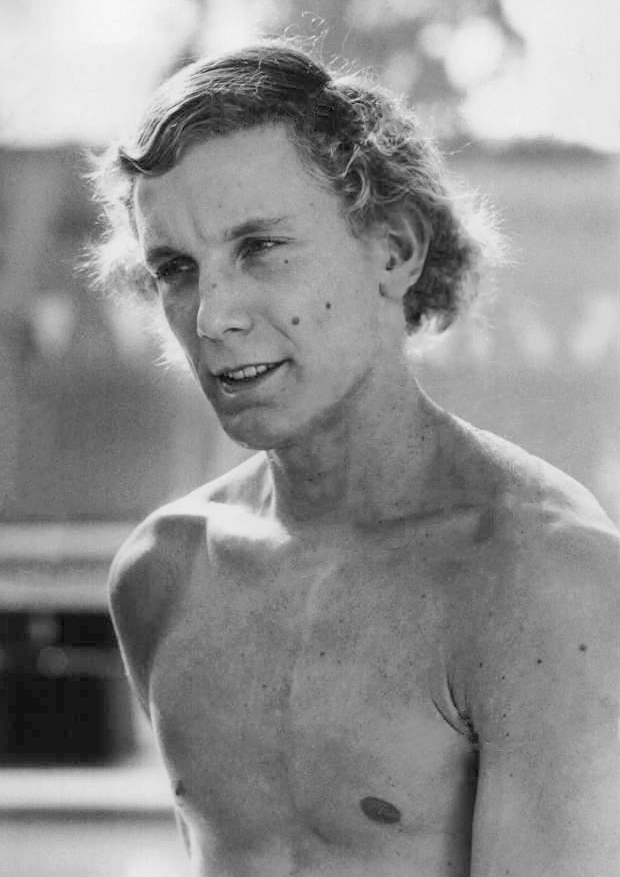 1976 Press Photo American Olympic swimming hopeful TIm Shaw - sas17603